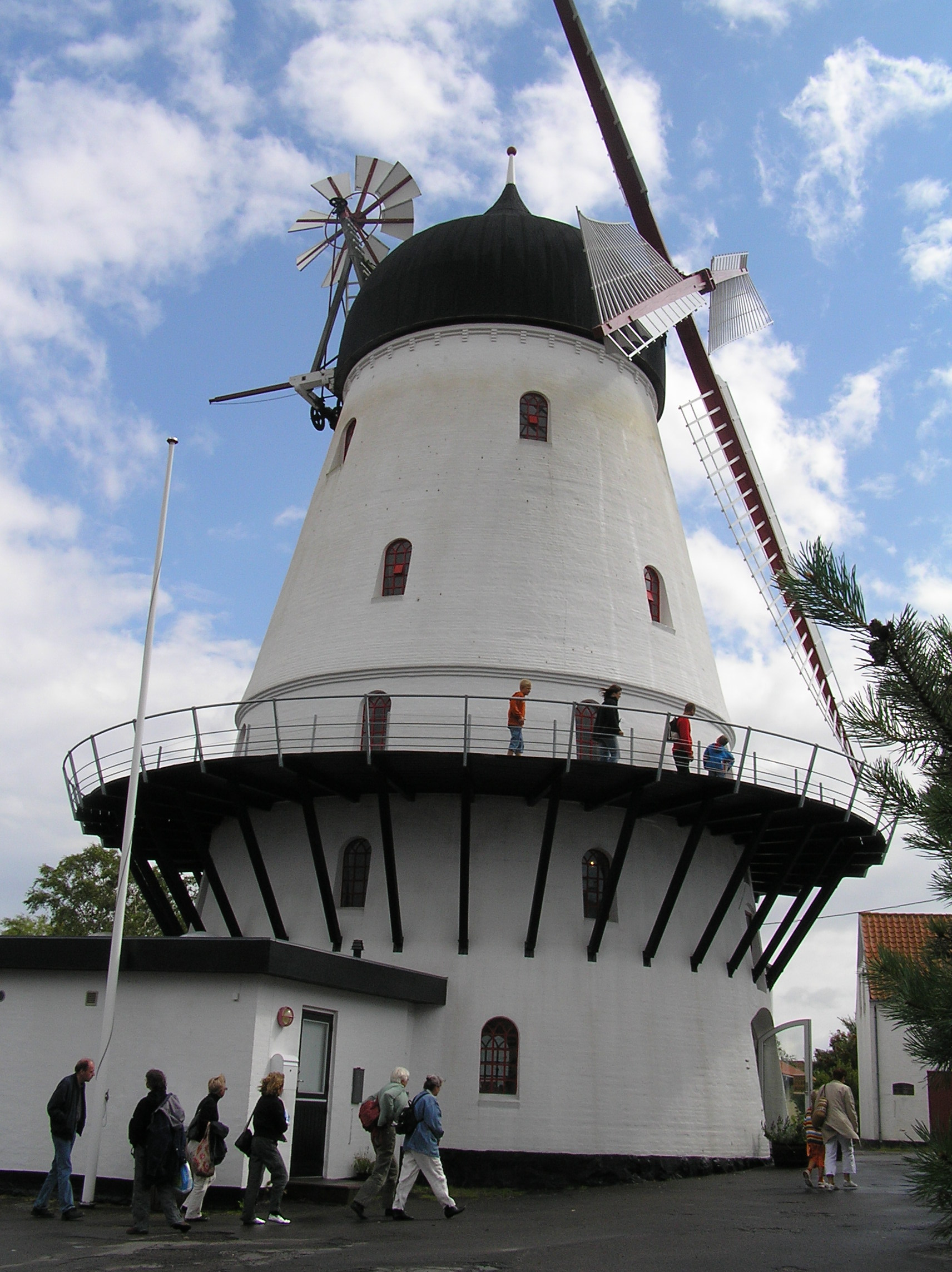 The mill in Gudhjem, Bornholm, Denmark.